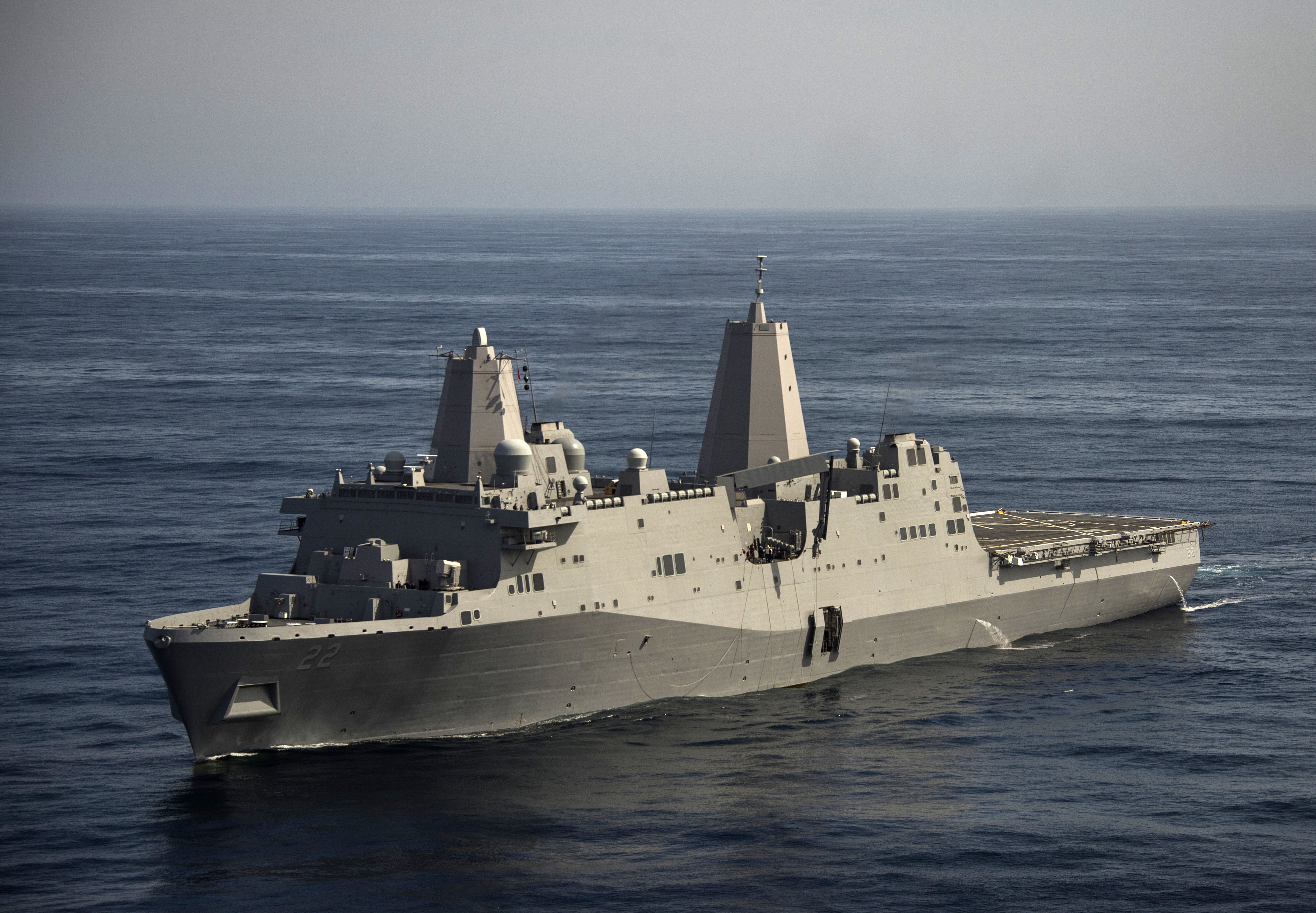 The U.S. Navy amphibious transport dock ship USS San Diego (LPD-22) underway conducting an underway recovery test for NASA's Orion crew module.